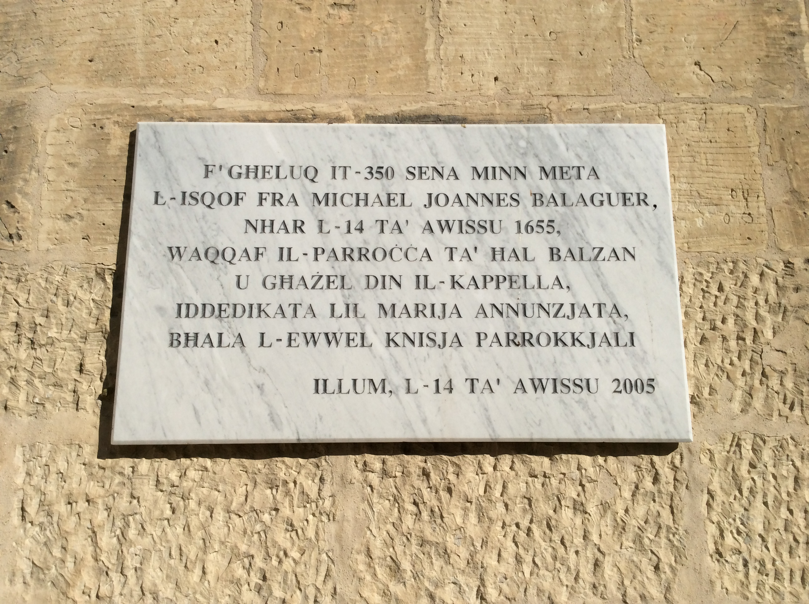 Balzan